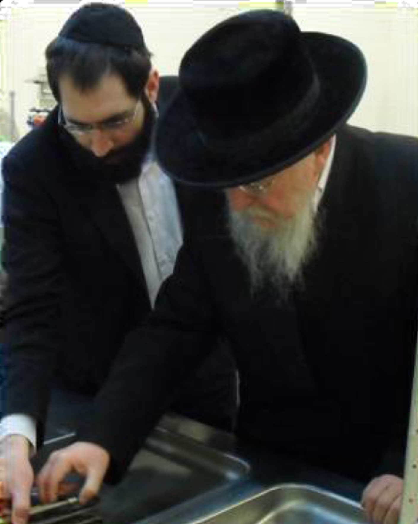 Rabbi Rabbinowitz - The "Biala Rebbe" during kashruth inspection.